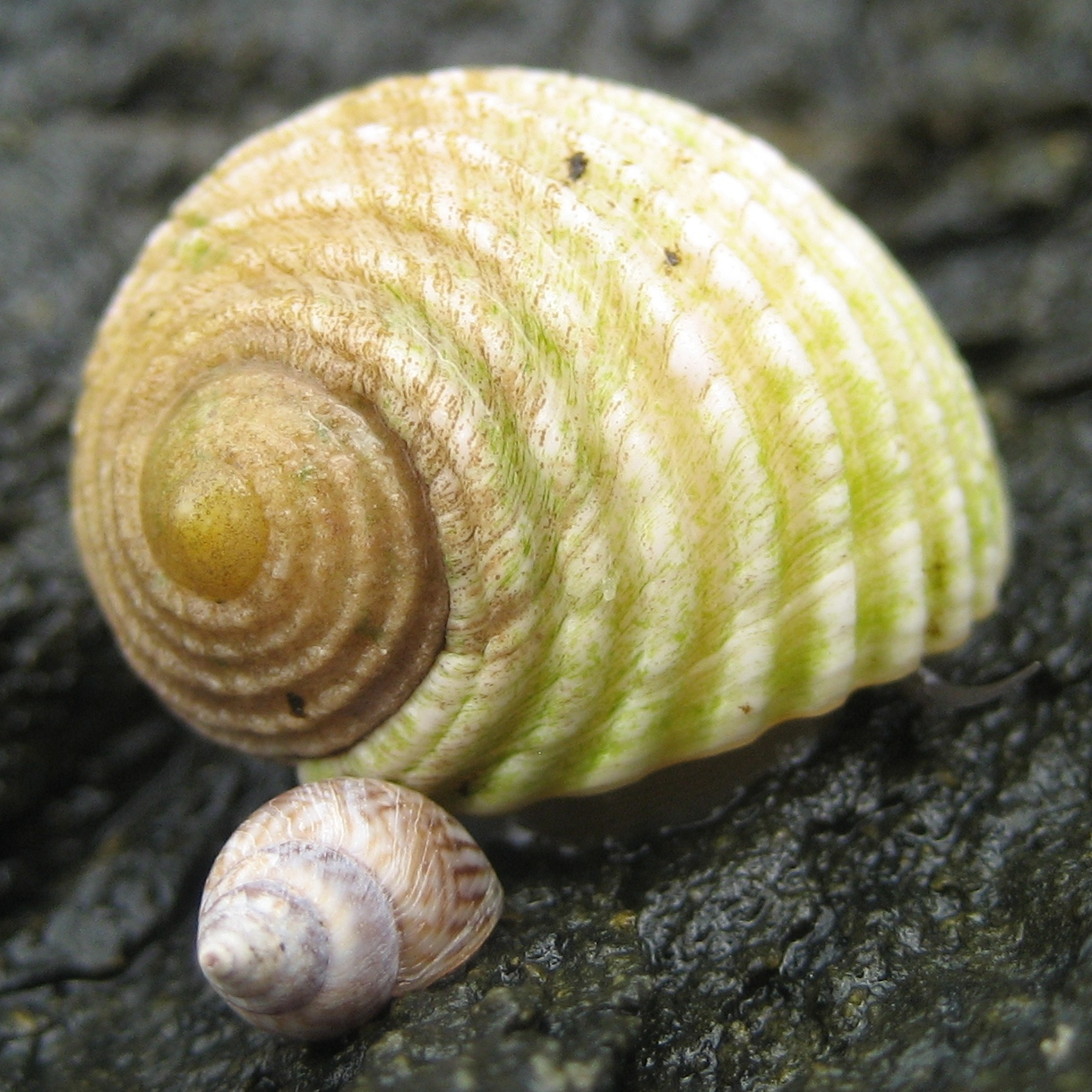 Nerita plicata on Mahe island on the Seychelles